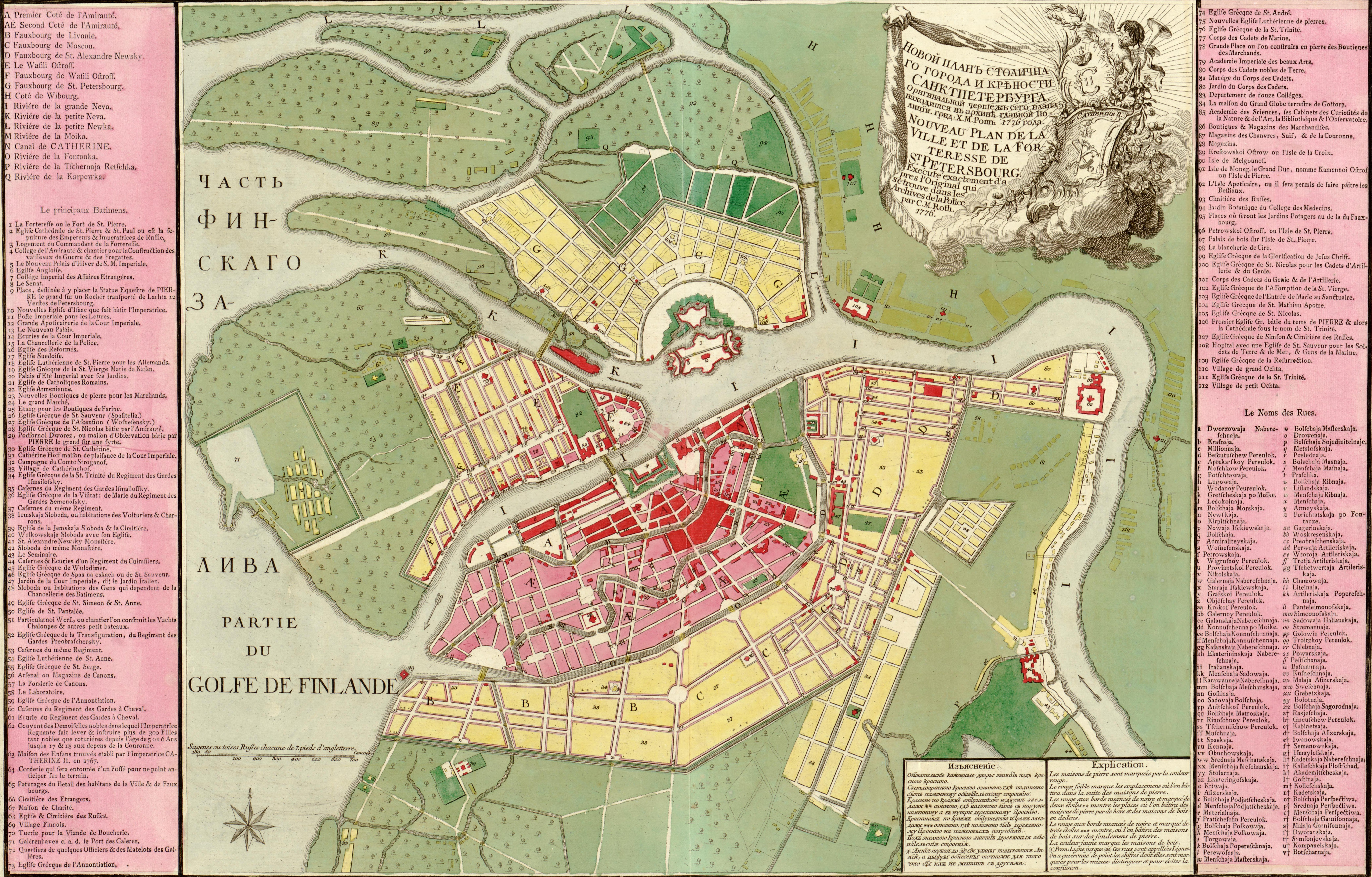 New Map of the city and the fortress of St Petersburg, drawn exactly according to the original file in the archives of the Police. By C.M. Roth.